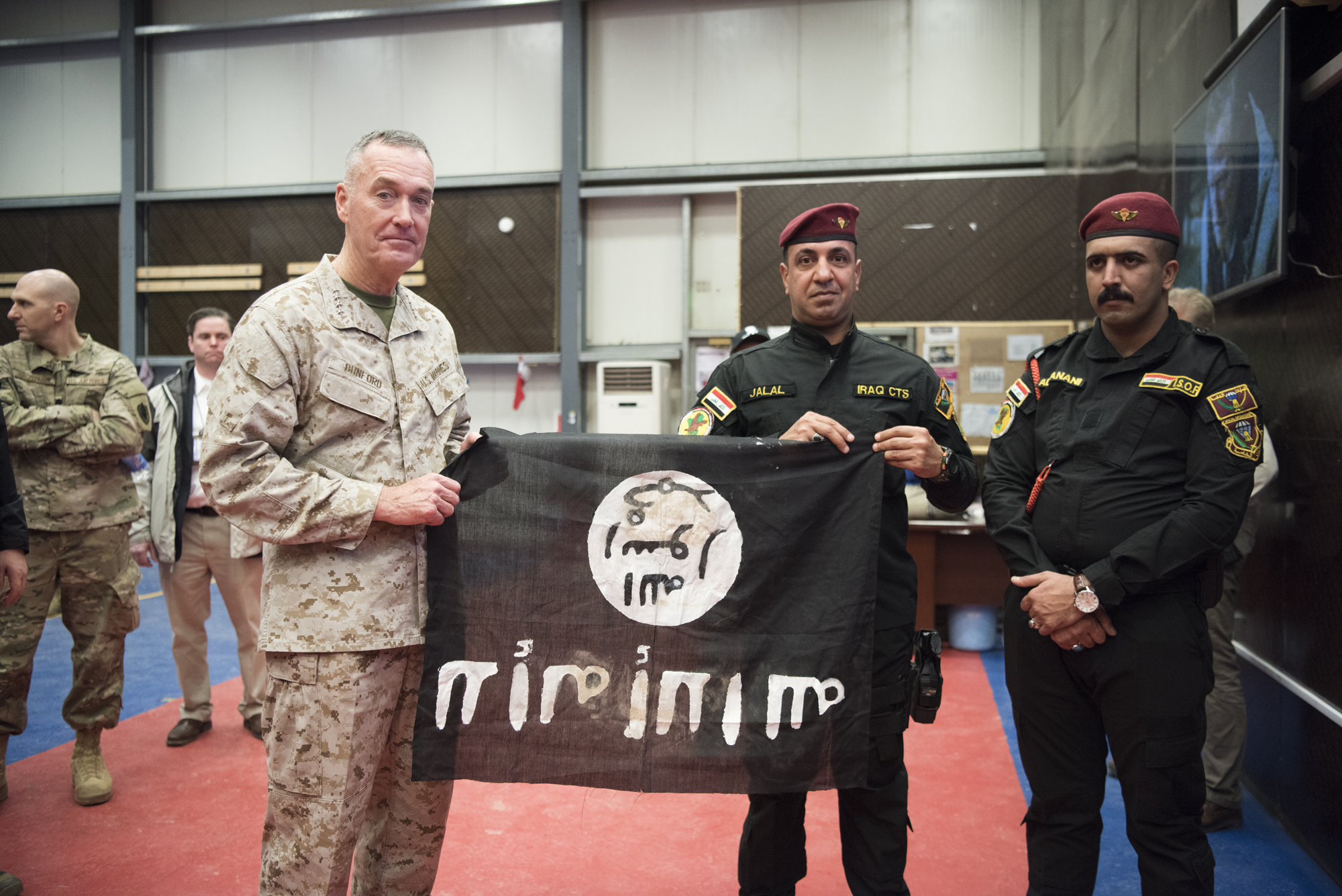 Members from the Iraqi Counter Terrorism Service present Marine Gen. Joseph F. Dunford, chairman of the Joint Chiefs of Staff, with a flag from Bartilah, a town recaptured just outside of Mosul from the Islamic State of Iraq and the Levant. This flag symbolizes the efforts of Combined Joint Task Force - Operation Inherent Resolve composed of U.S. Army Soldiers, U.S. Marine Corps Marines, U.S. Navy Sailors, United States Air Force Airmen and coalition military forces. (DoD Photo by Navy Petty Officer 2nd Class Dominique A. Pineiro/released)